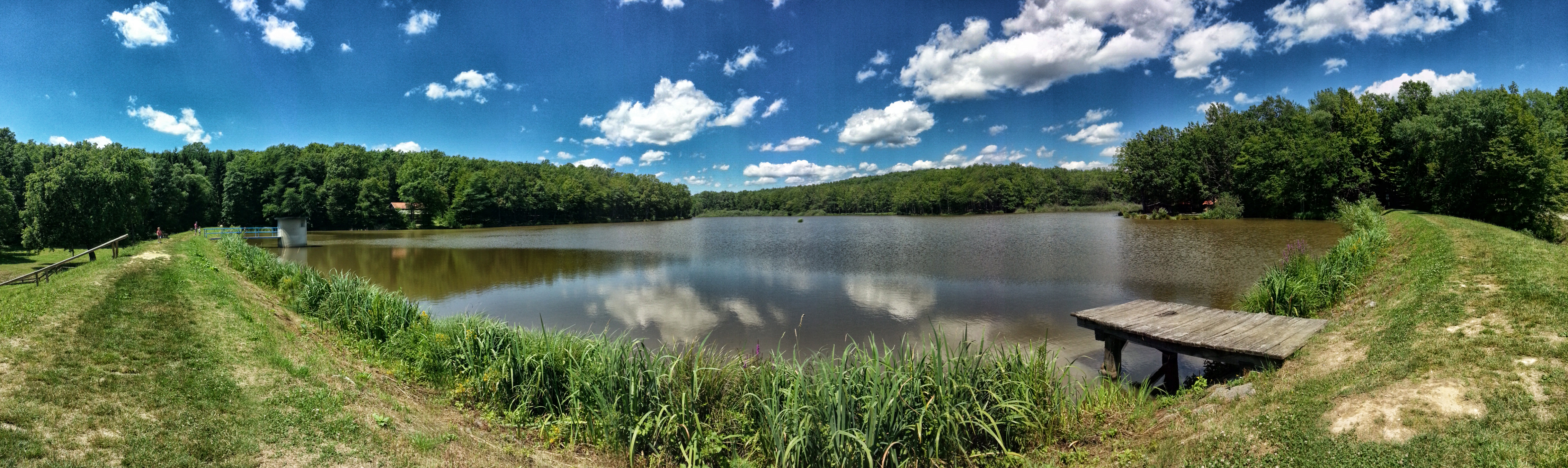 Bukovniško jezero Slovenia - Prekmurje region